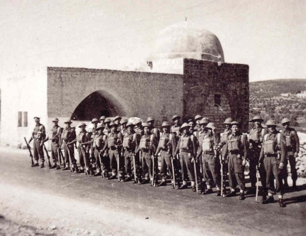 Jewish Brigade volunteers at Rachel's Tomb, 1944